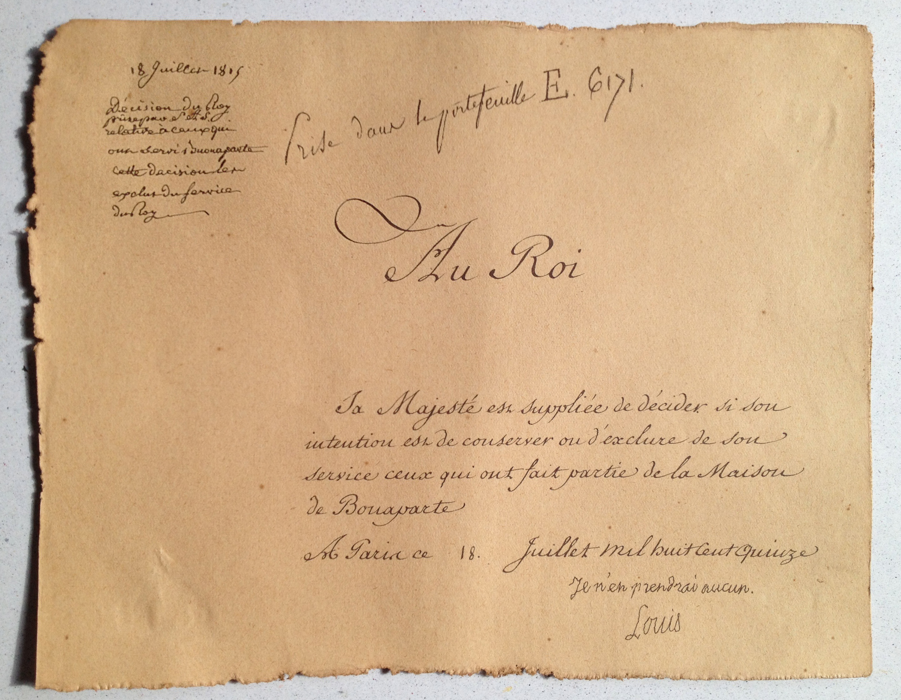 Memoire au Roi (Facsimile): Louis XVIII. is asked if his intention is to include or to exclude those from his royal services, who had been part of the House of Bonaparte. The king replies this inquiry with his own hands "Je n'en prendrai aucun. Louis" (I do not take anyone. Louis); Transcription: Au Roi Sa Majesté est suppliée de décider si son intention est de conserver ou d'exclure de son service ceux qui ont fait partie de la Maison de Bonaparte. A Paris ce 18. Juillet mil huit cent quinze. Je n'en prendrai aucun Louis Title: "Memoire au roi Louis XVIII concernant les adhérents de la maison de Bonaparte dans le service du roi (fac-simile)"; Date/year: Paris on july 18, 1815; Dimensions: ca. 227 x 177 mm; Pages: 1p/ velin; Location: Collection Louis de France (private collection)/ Germany